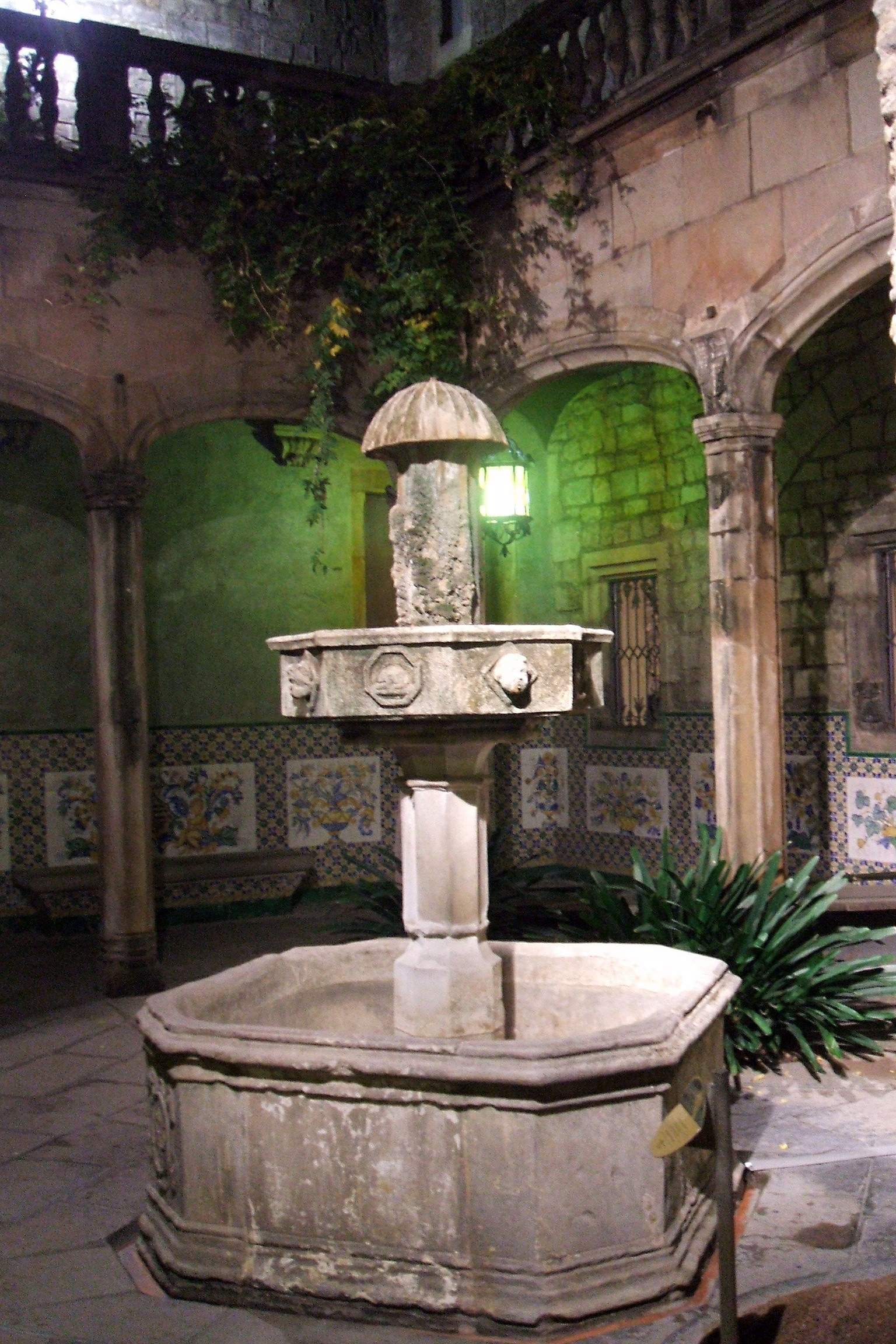 Patio del Archivo Histórico de la Ciudad de Barcelona (Cataluña, España)